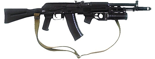 AK-107 with GP-25 grenade launcher